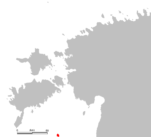 Ruhnu island on the map of Estonia.